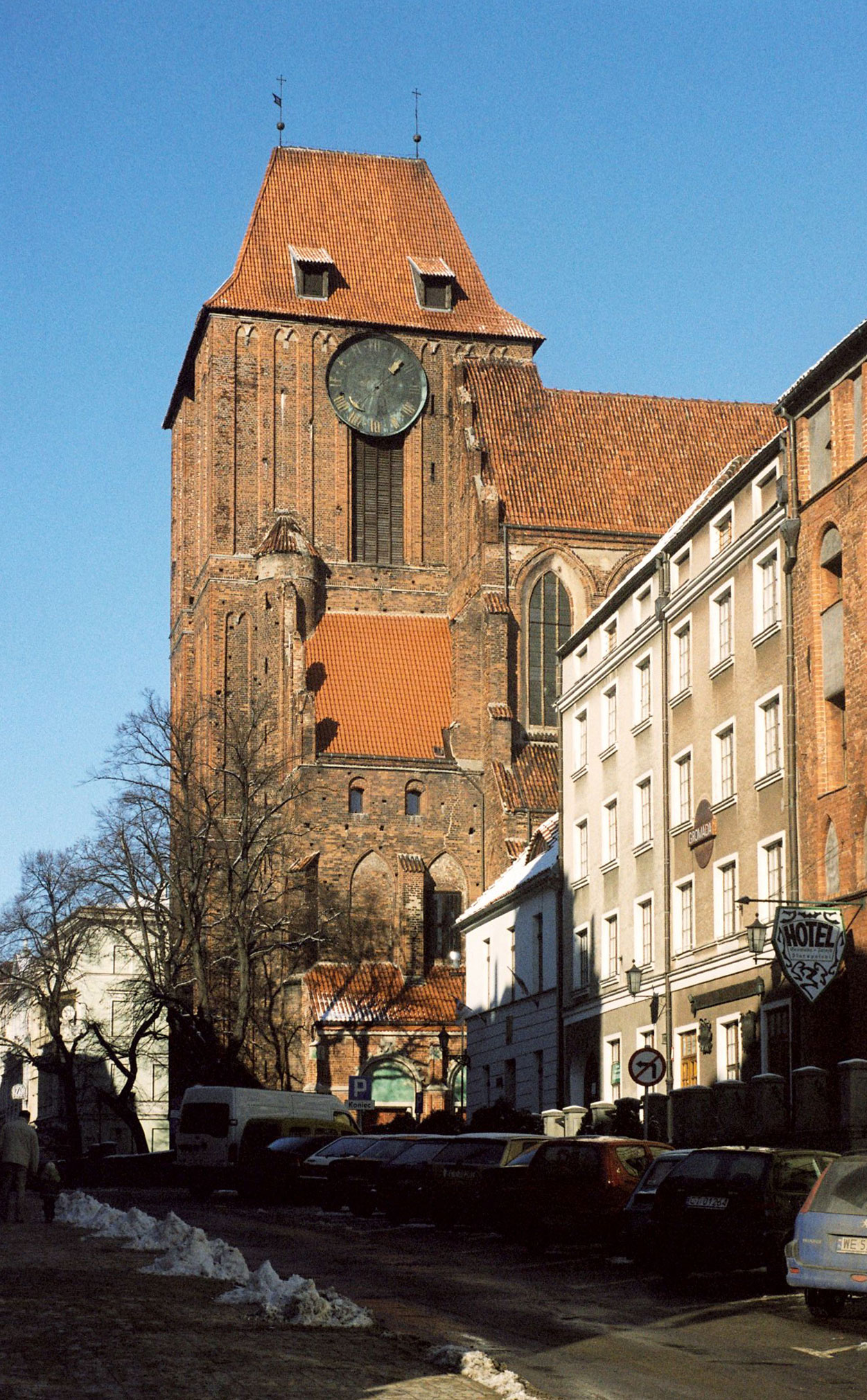 St. Johns' Cathedral in Toruń viewed from Żeglarska Street.